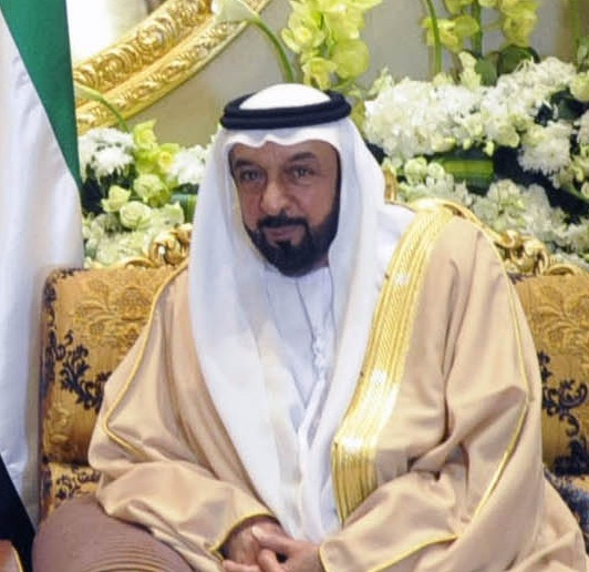 Sheikh Khalifa bin Zayed Al Nahyan